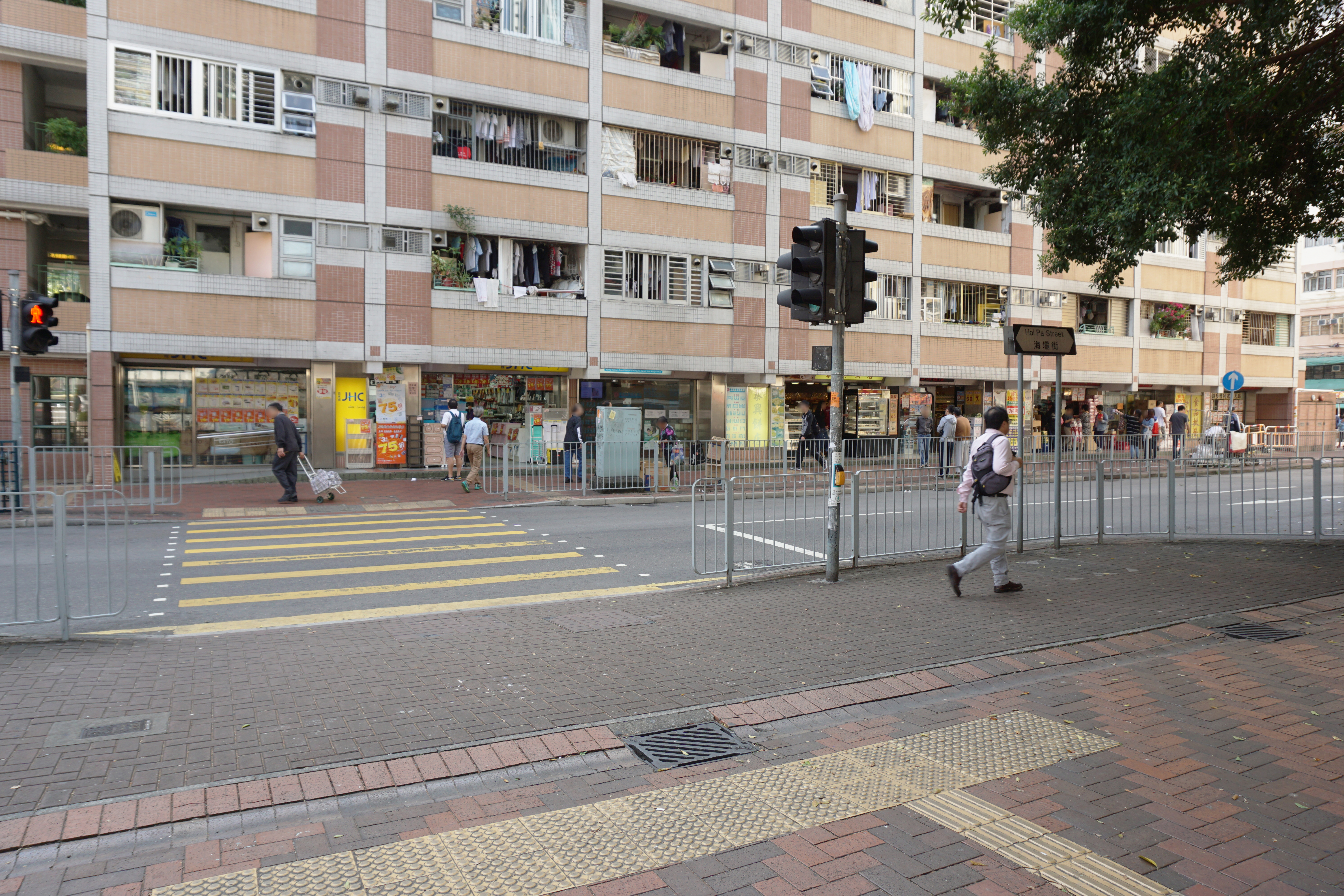 Moon Lok Dai Ha Hong Lok Lau in Tsuen Wan, Hong Kong.